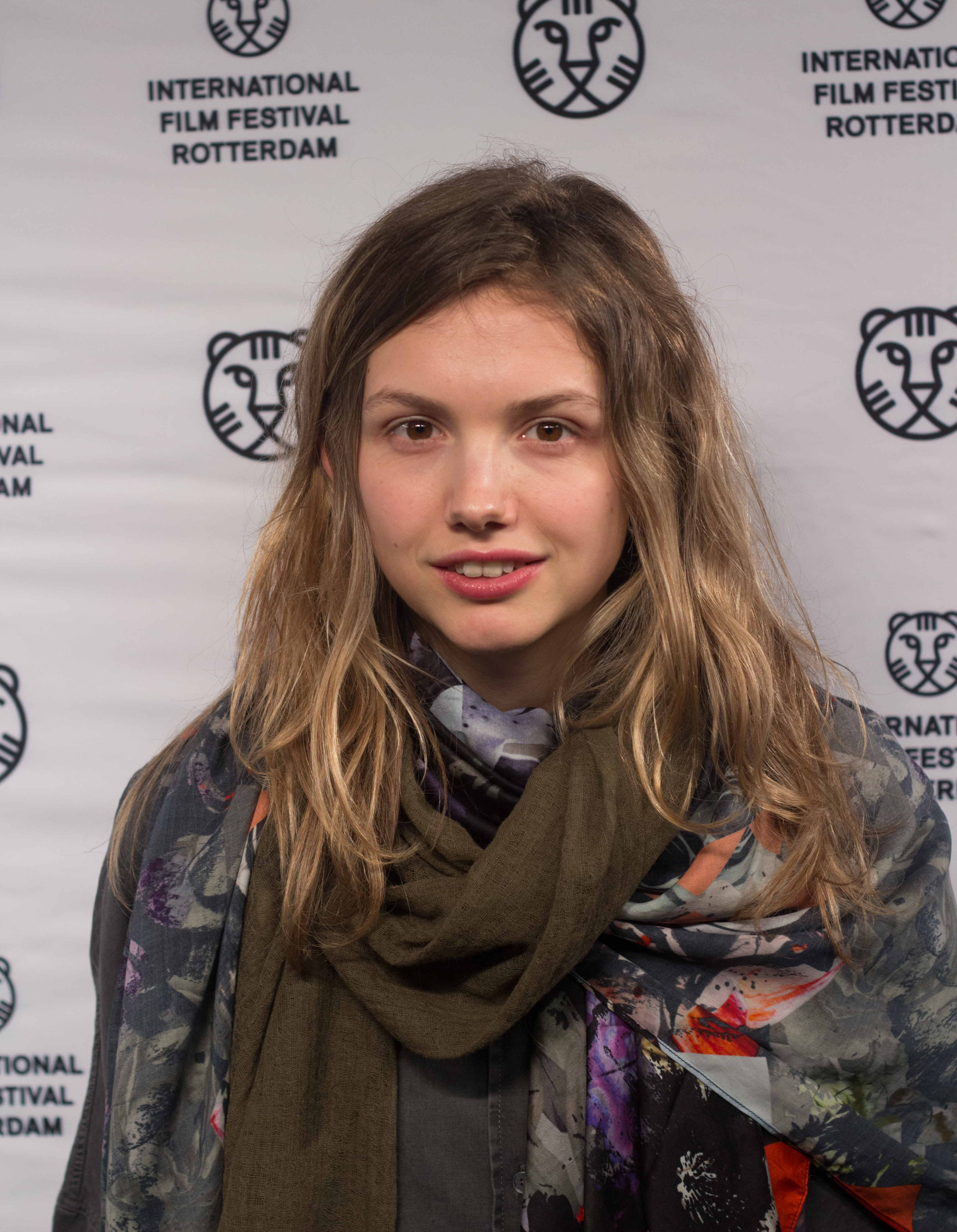 Hannah Murray at the premiere of Bridgend at the IFFR